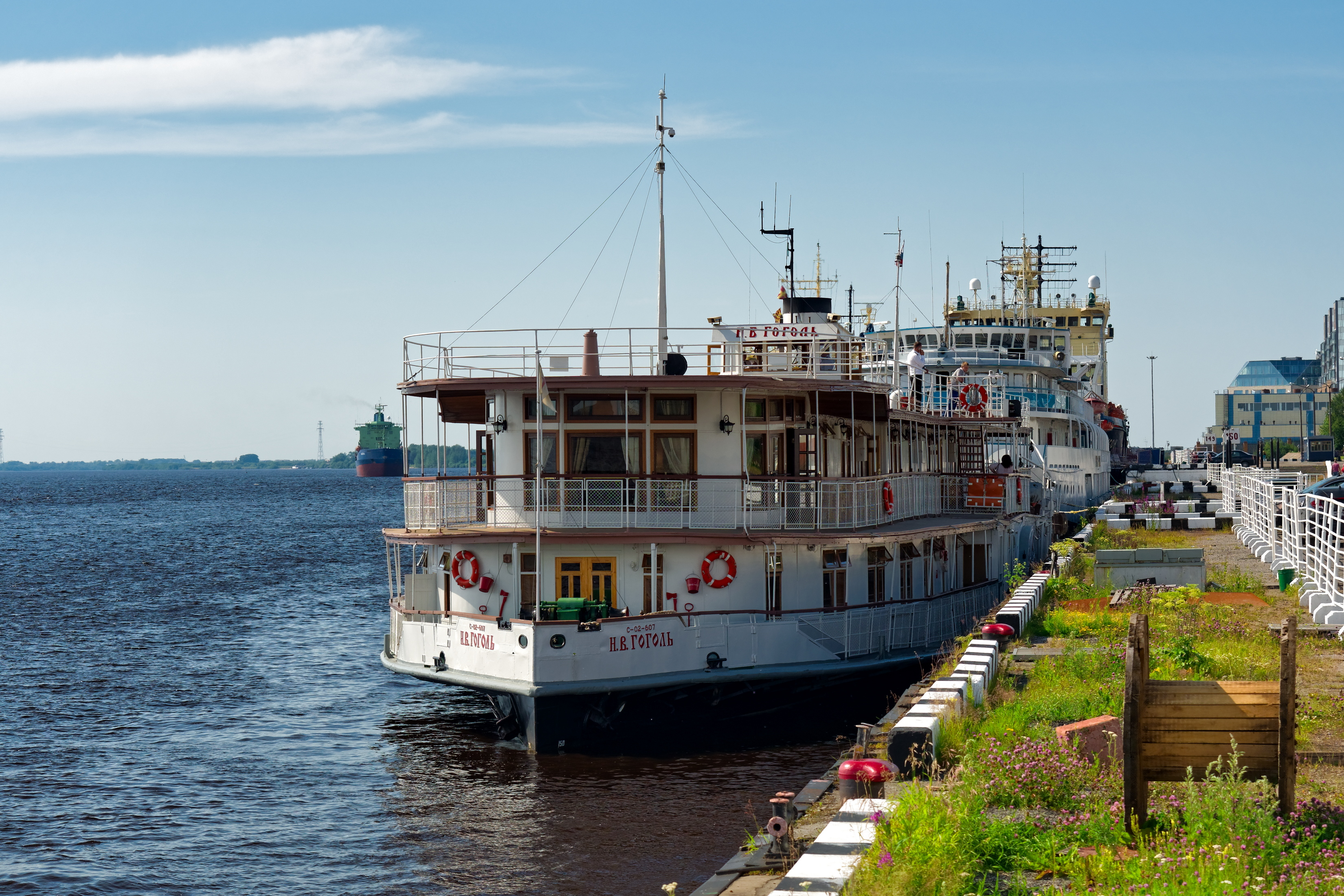 Arkhangelsk. Steamboat "N. V. Gogol"